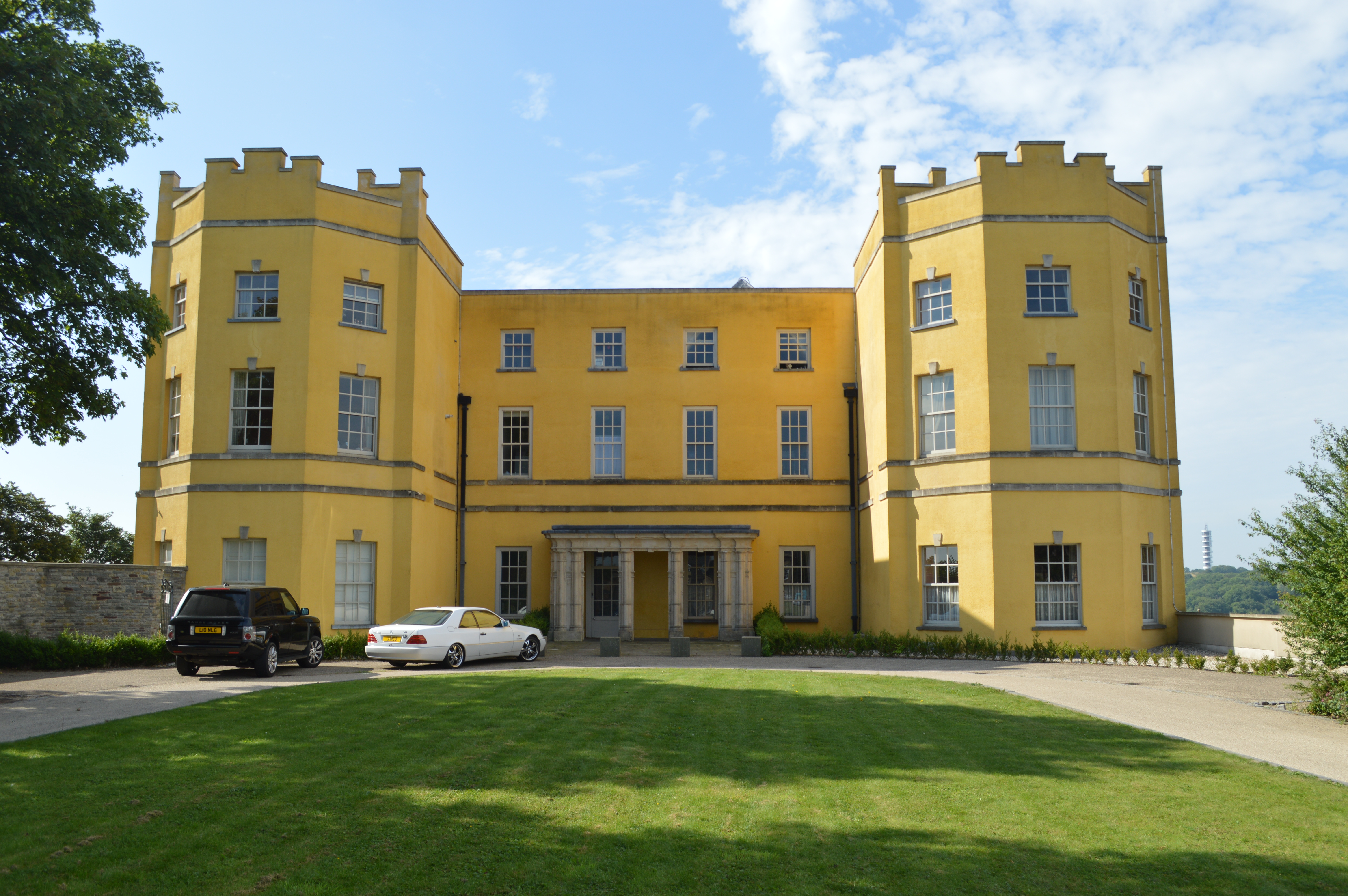 The Dower House, Stoke Park, Bristol. Now luxury flats, formerly part of Stoke Park Hospital. The Dower House is on the edge of the new housing development of Stoke Park, on the hospital site, which is just outside the Bristol City boundary into South Gloucestershire.